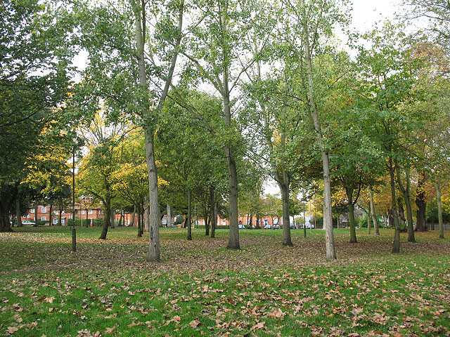 The Pleasance, Putney A roughly circular glade of trees surrounded by suburban housing.